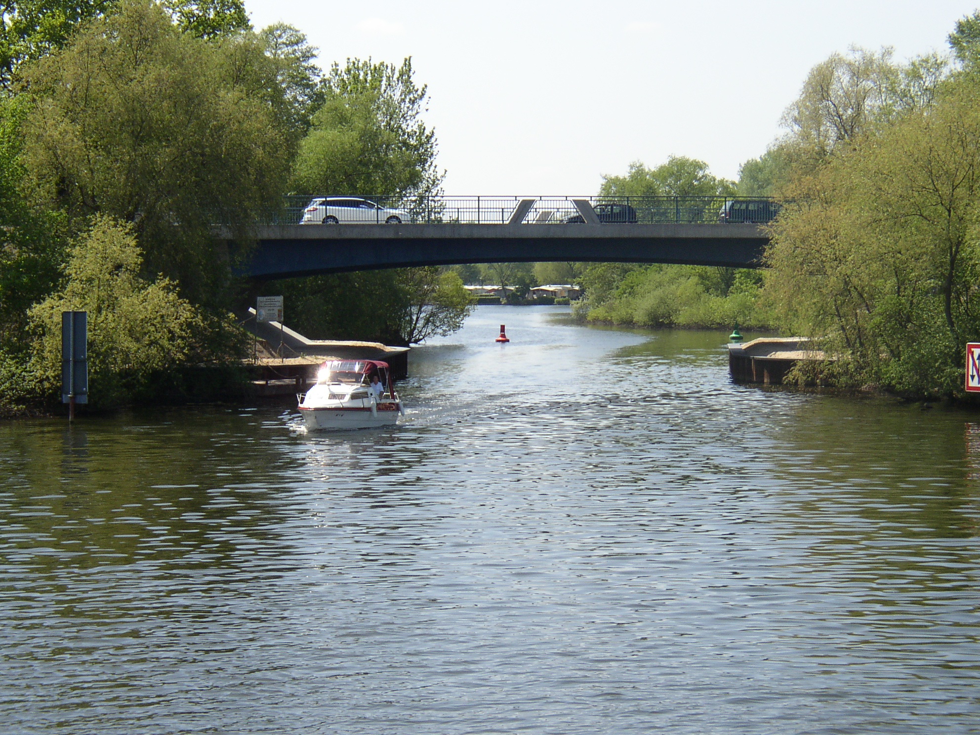 The new Strengbrücke Mai 2008 (Werder/Havel) [1]